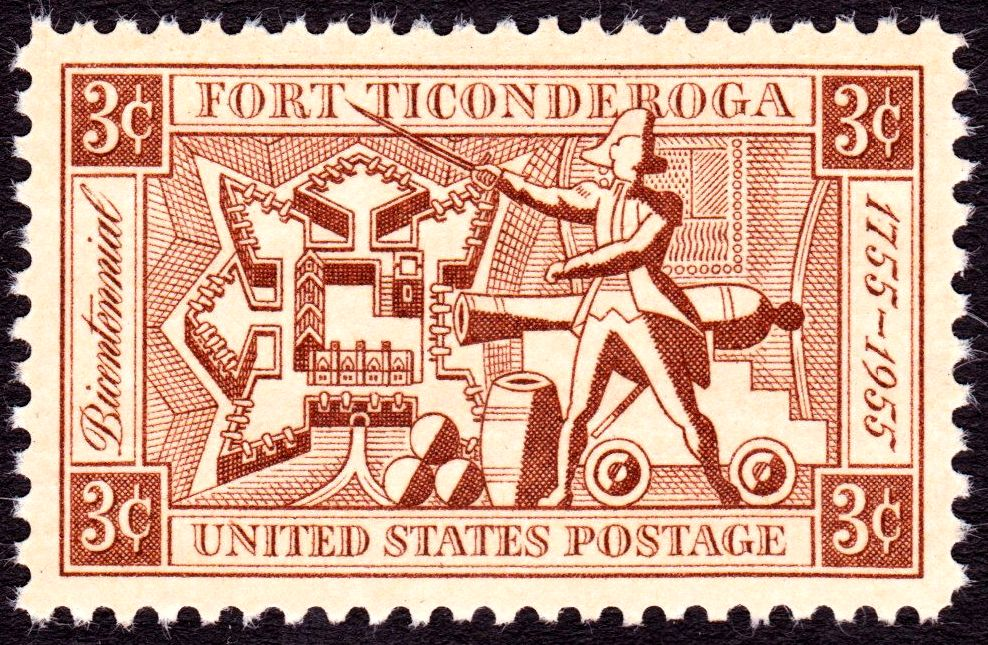 Fort_Ticonderoga-1955_Issue-3c.jpg